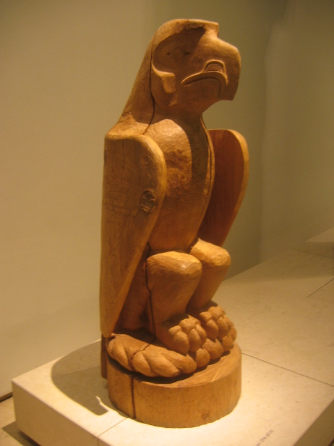 British Museum, London : eagle crest, red cedar, Nisga'a, Britich Columbia, 2003